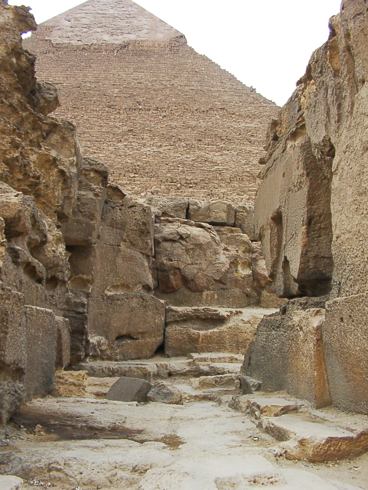 Side chamber (storage room or statue chamber) in Khafre's mortuary temple, with Khafre's pyramid behind